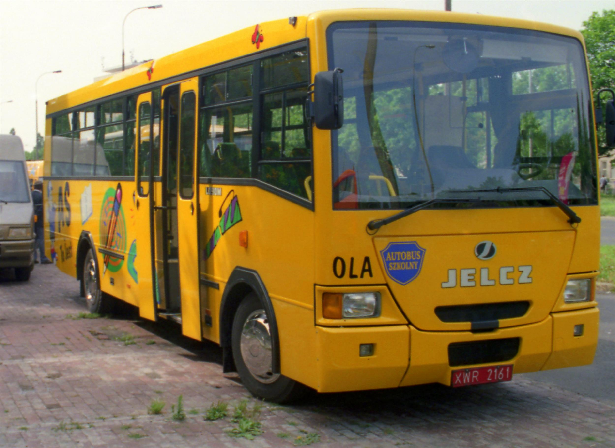 Jelcz L090M Ola school bus (reg. XWR 2161) with Star 12.155 chassis in Poland. Built 1999.